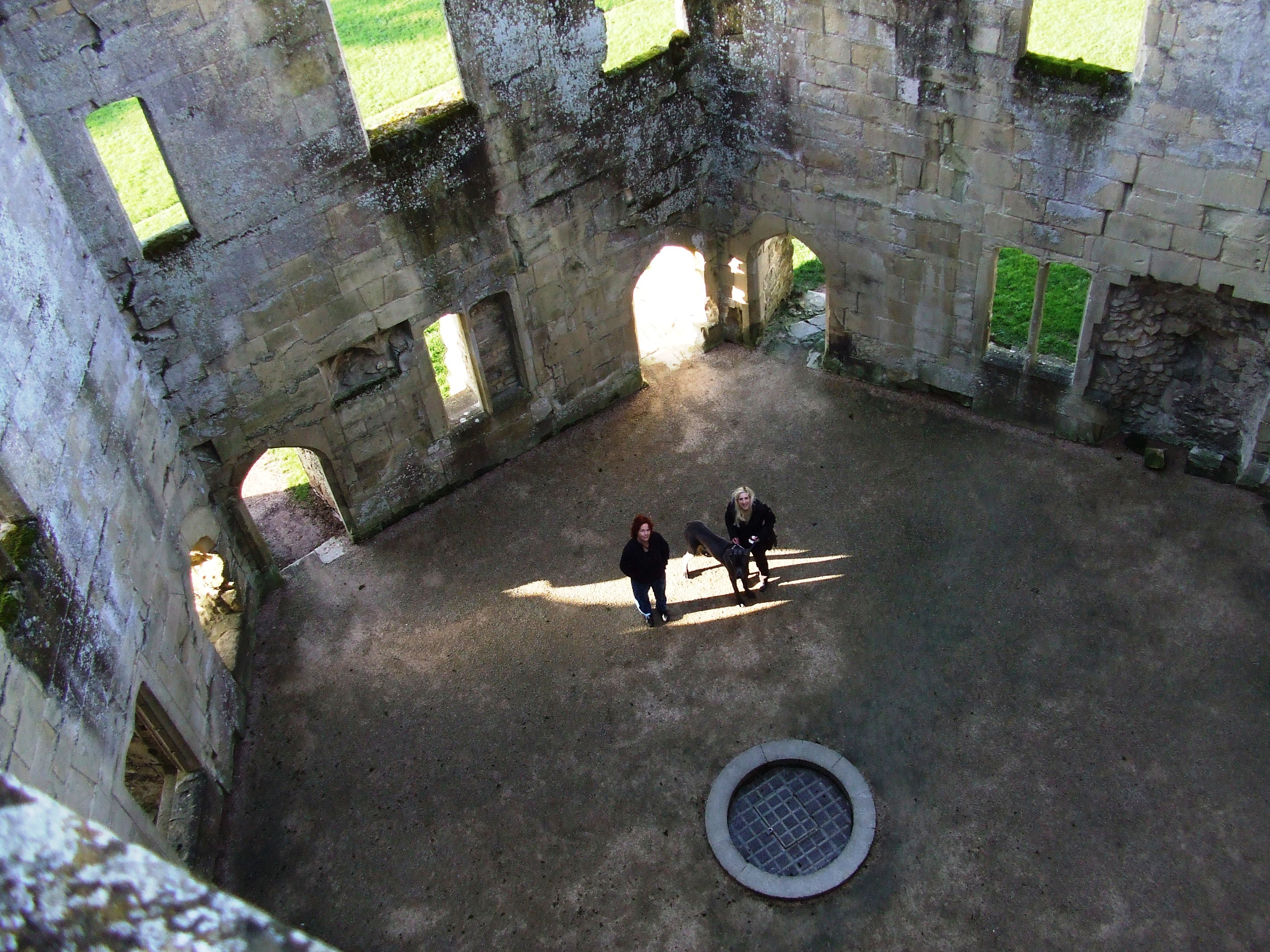 Inside the shell keep of Wardour Castle, Wiltshire, showing the well